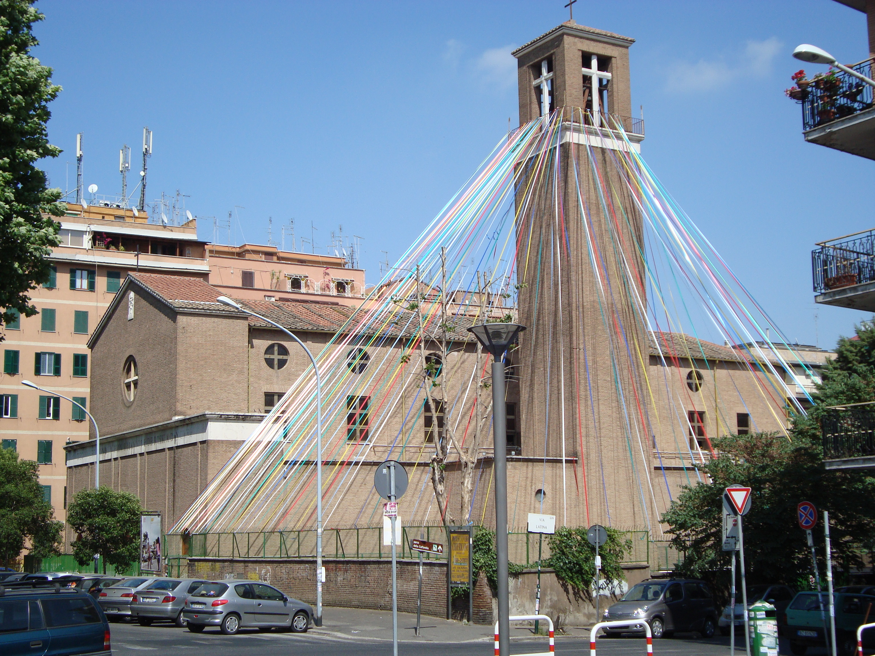 Church San Giovanni Battista de Rossi of Rome in the Appio Latino district